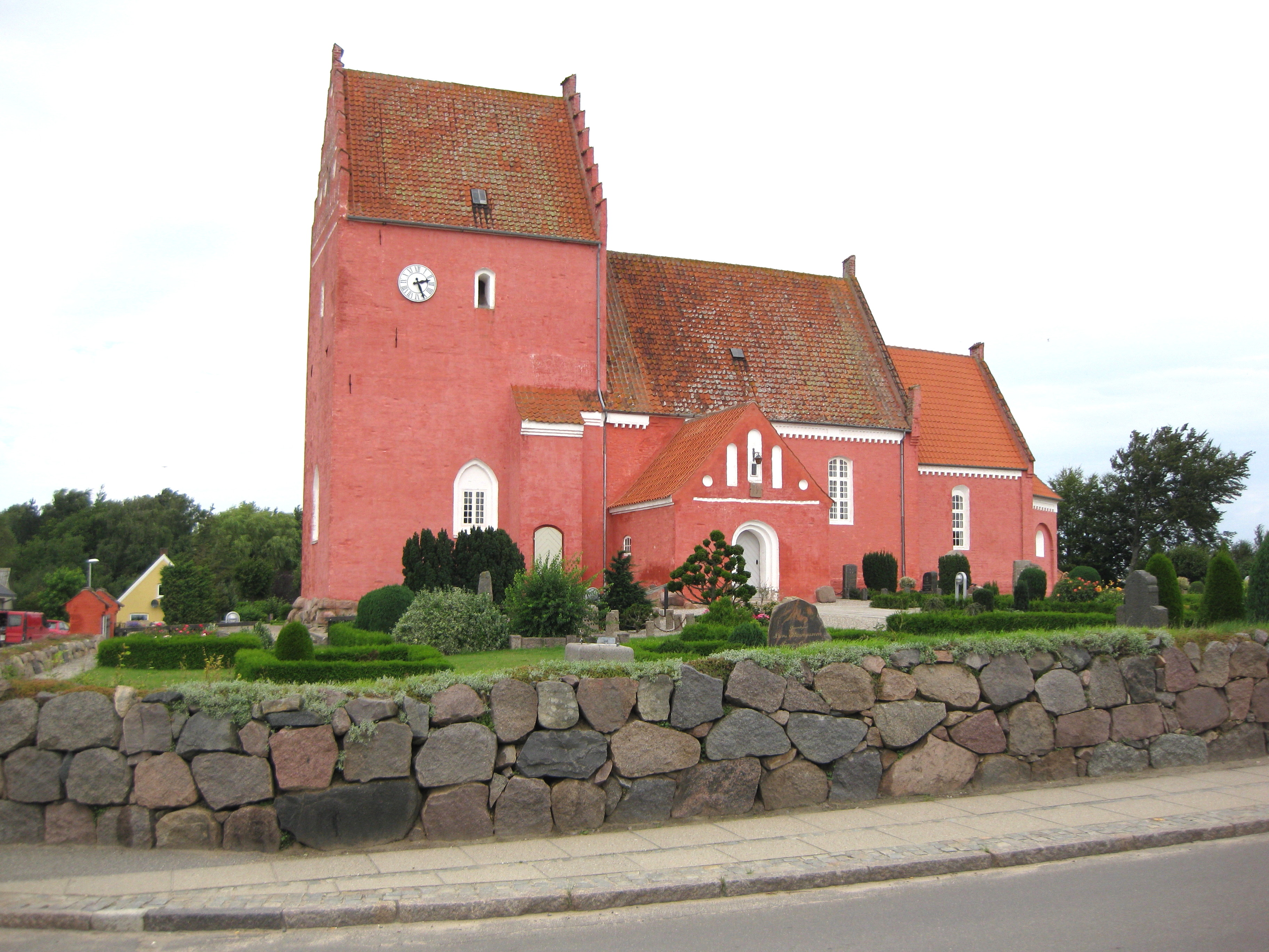 The church "Eskilstrup Kirke" in the small town "Eskilstrup". The town is located on the island Falster in east Denmark.